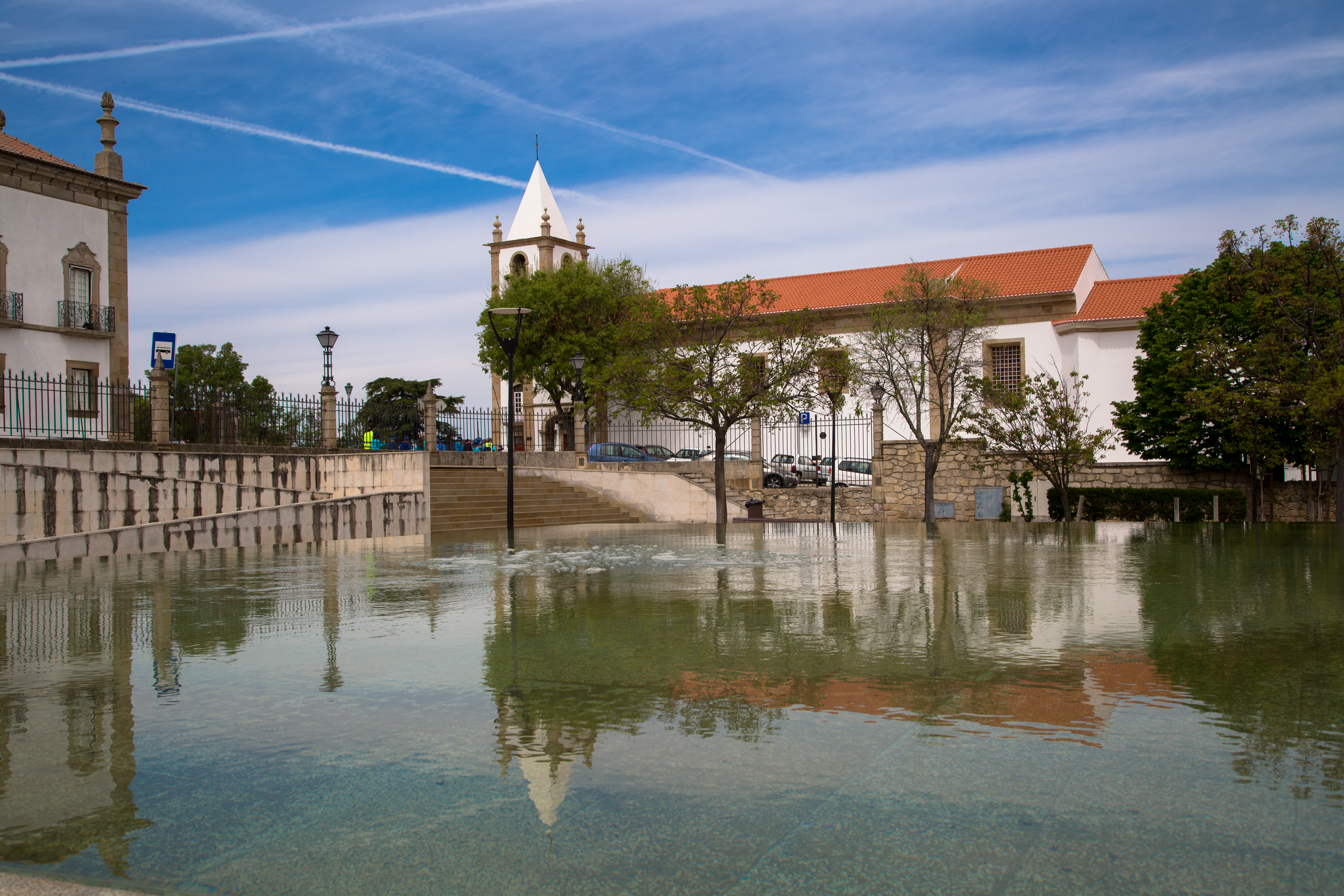 SCMCB